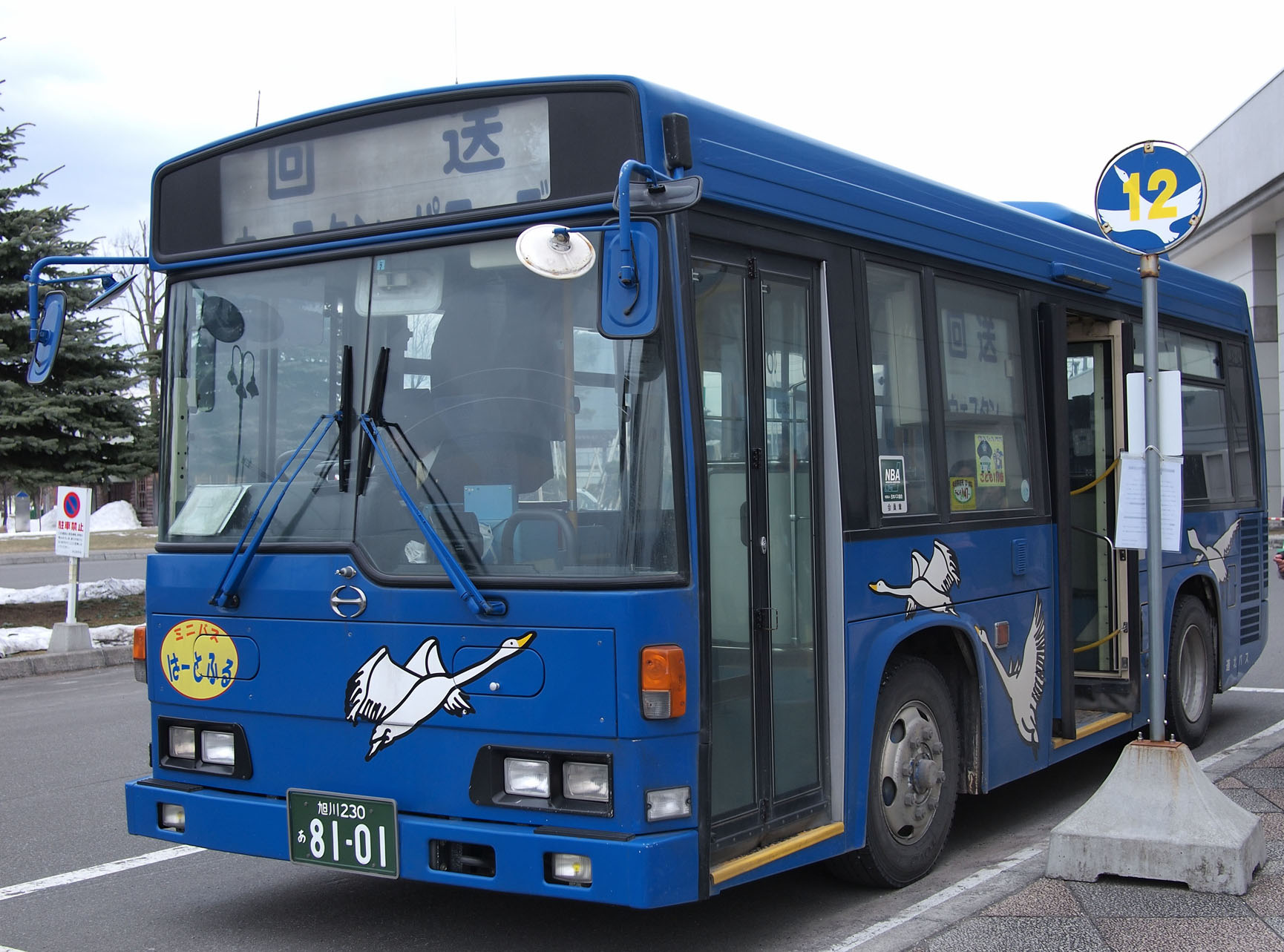 Nagayama community bus, Asahikawa, Hokkaido, Japan